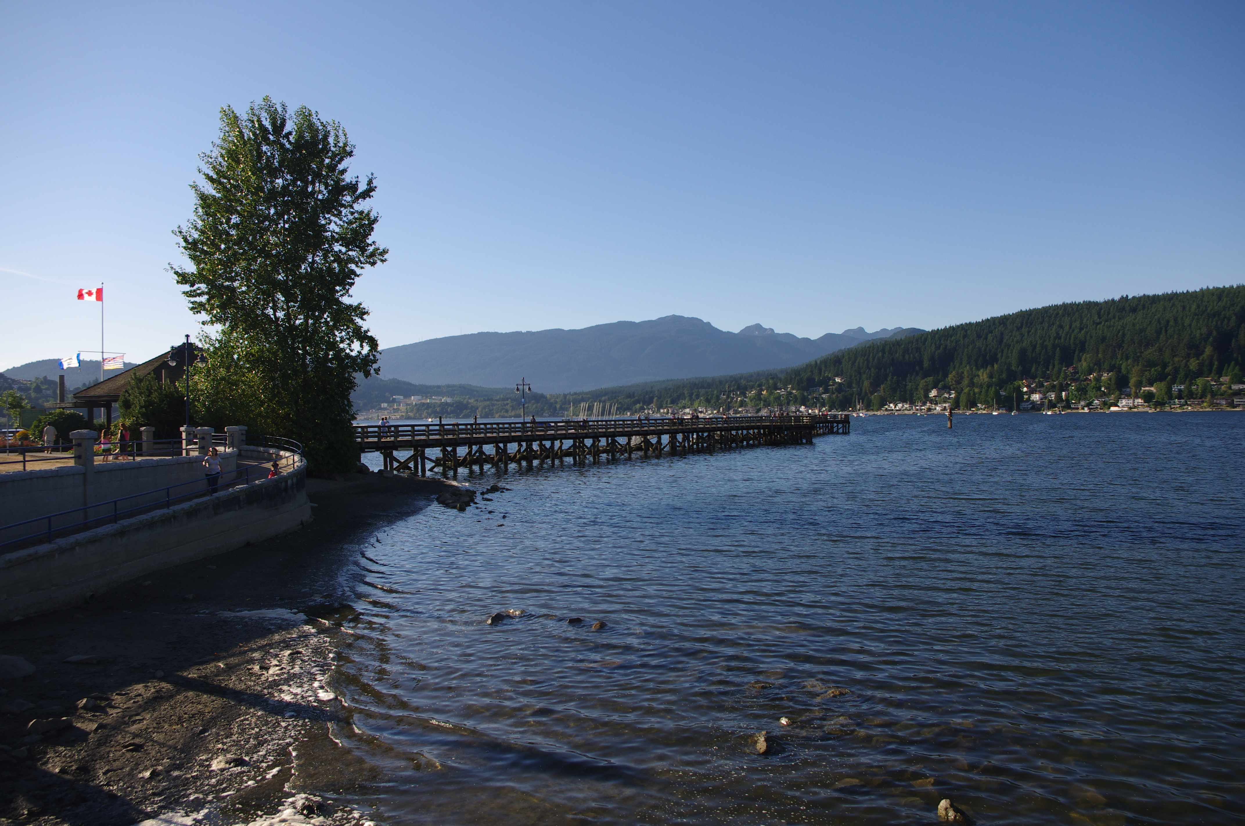 Rocky Point Park in Port Moody, British Columbia, Canada